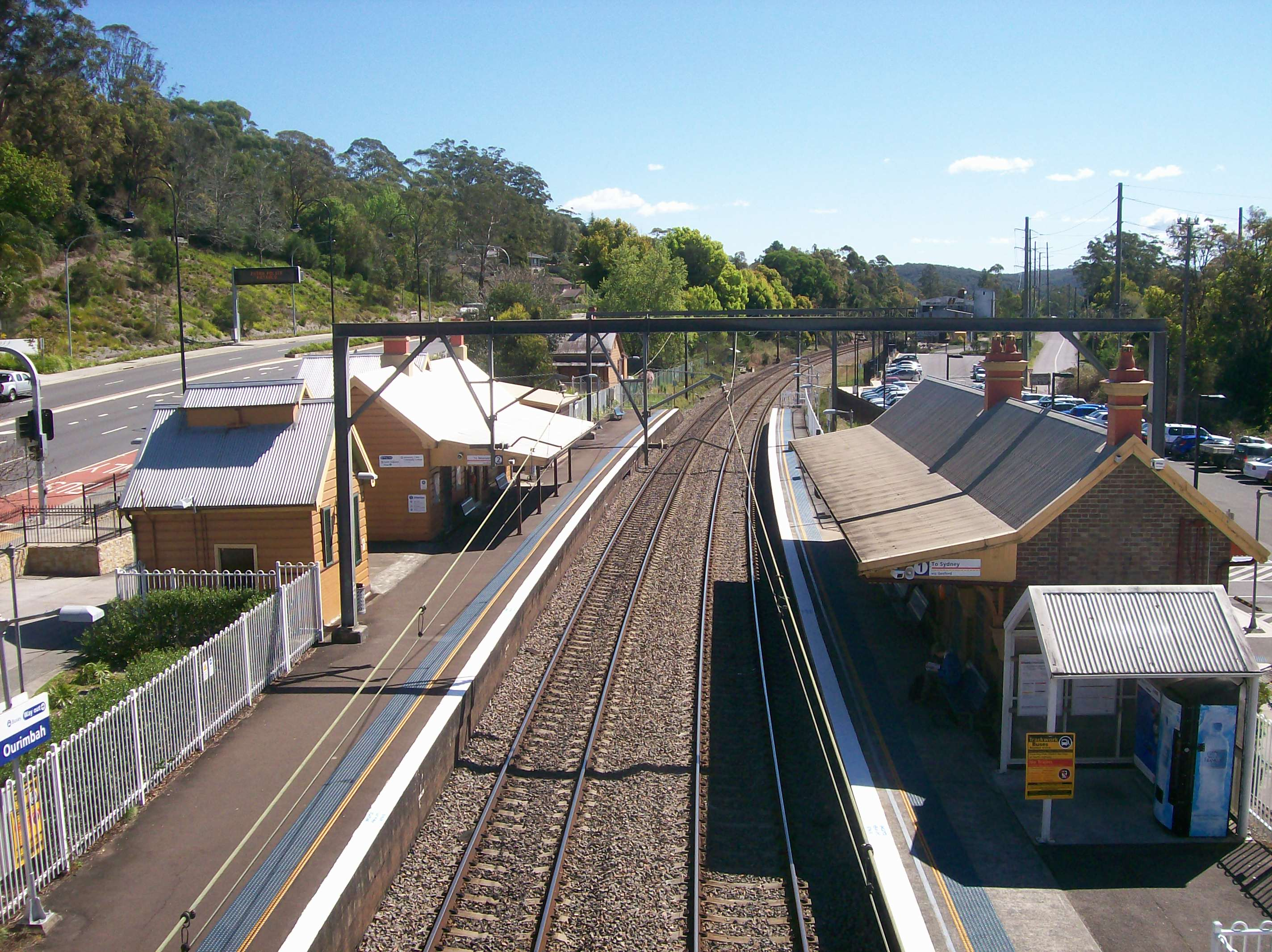 Ourimbah railway station view from footbridge